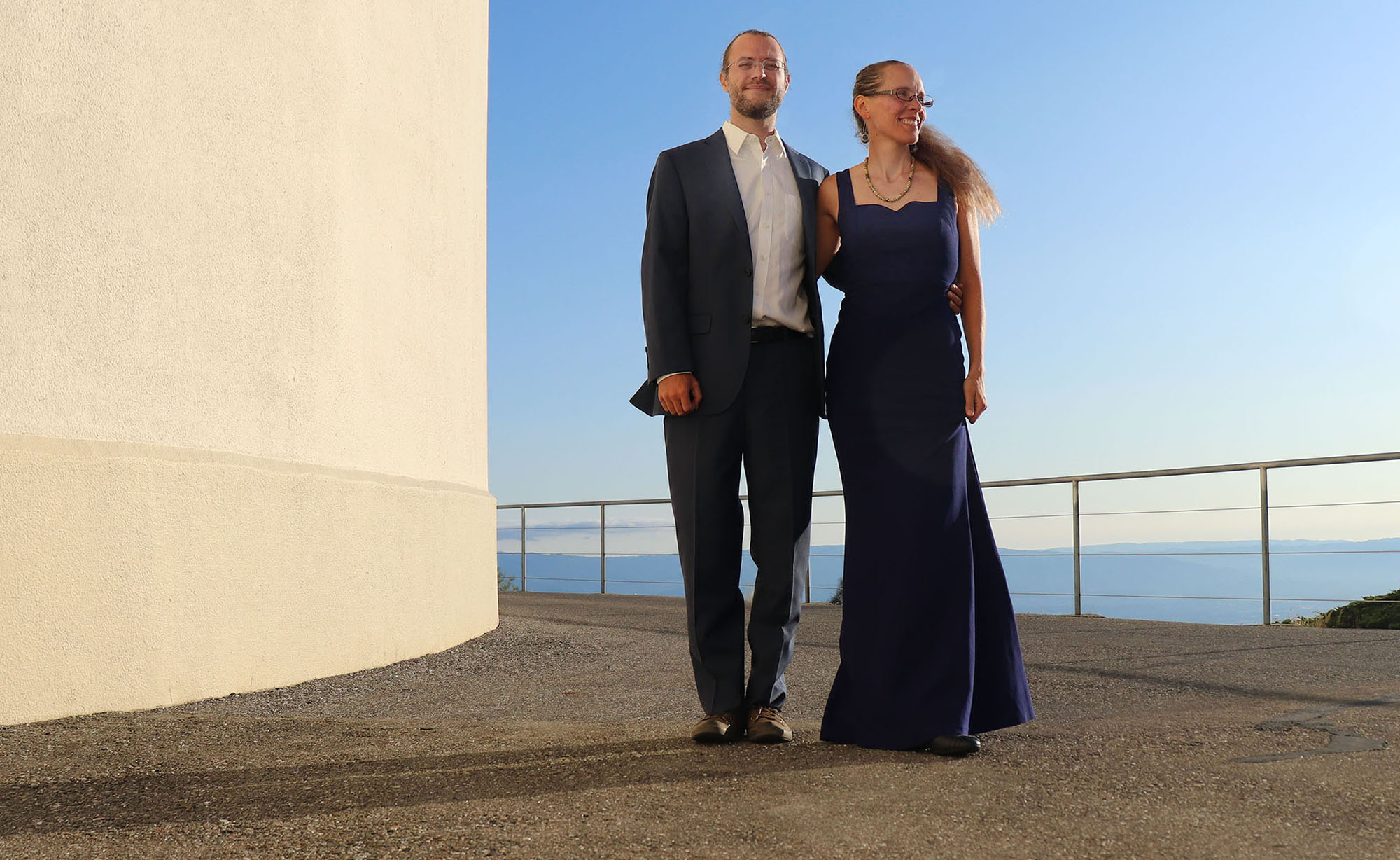 A formal picture of Folias Duo - Andrew Bergeron and Carmen Maret